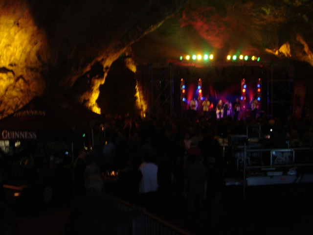 Irish Folk & Celtic Music in 2005